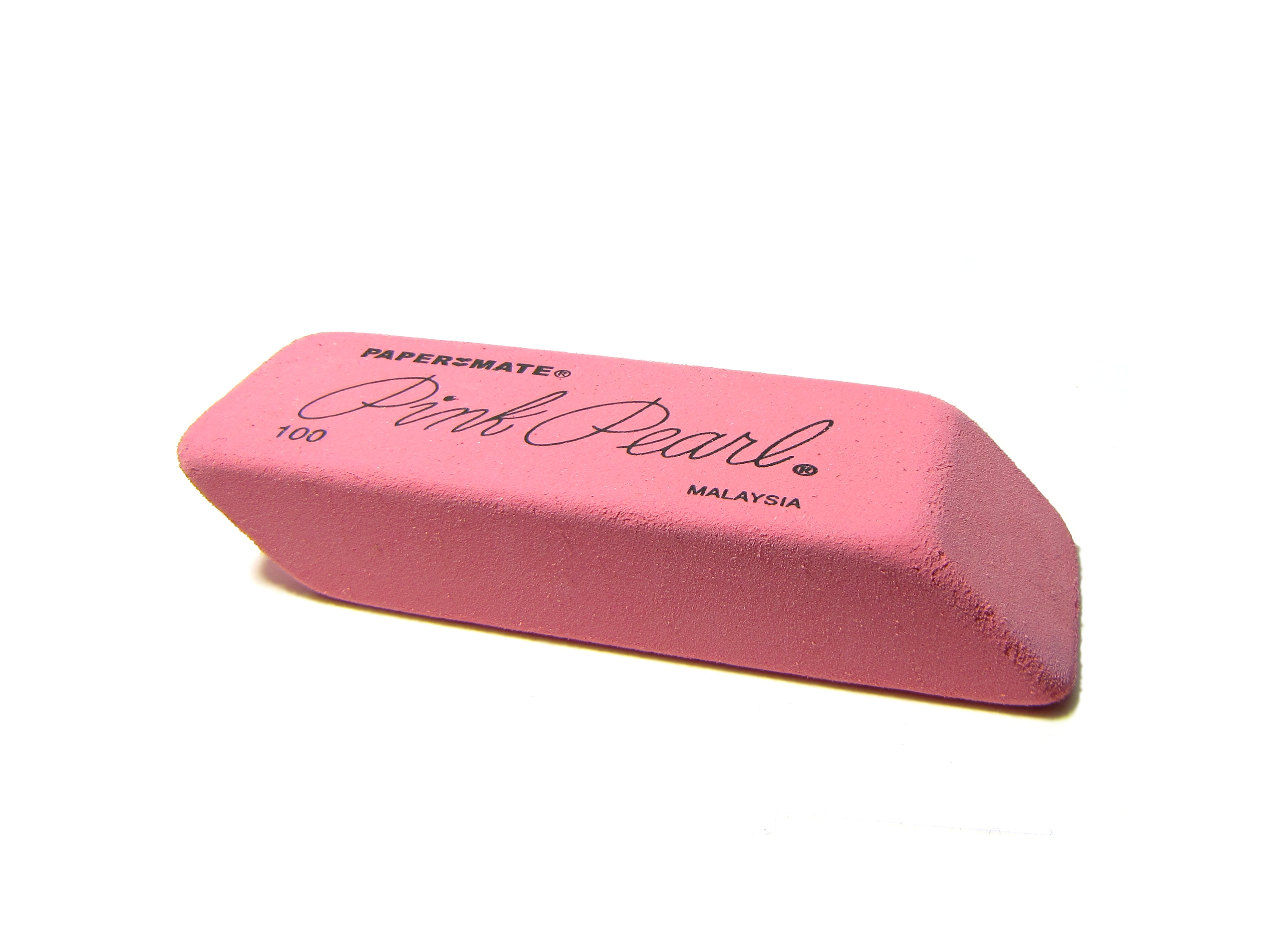 Pink Pearl eraser from Paper Mate.